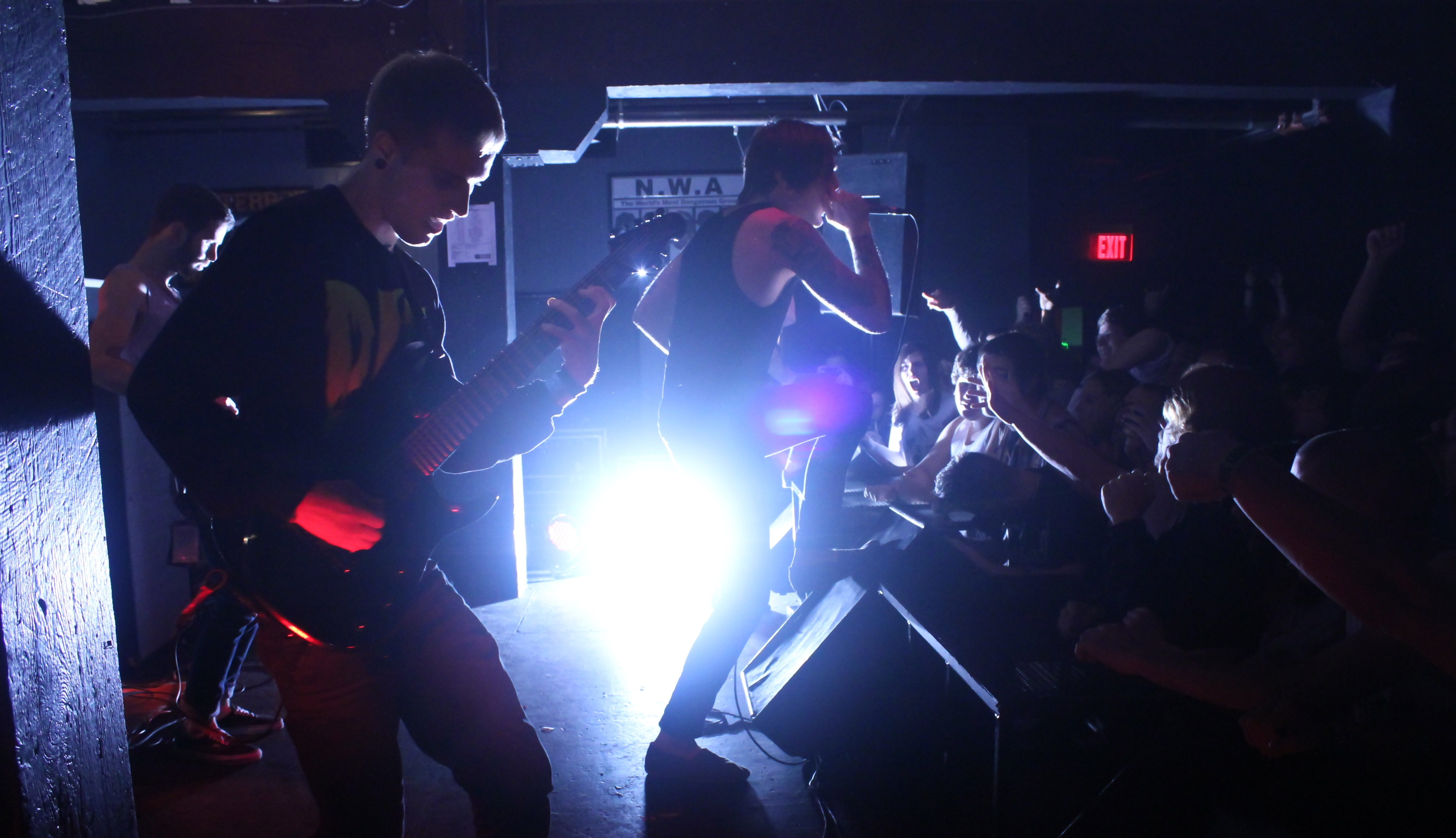 Chelsea Grin live at the Thrash and Burn Tour in Richmond, VA in 2011.